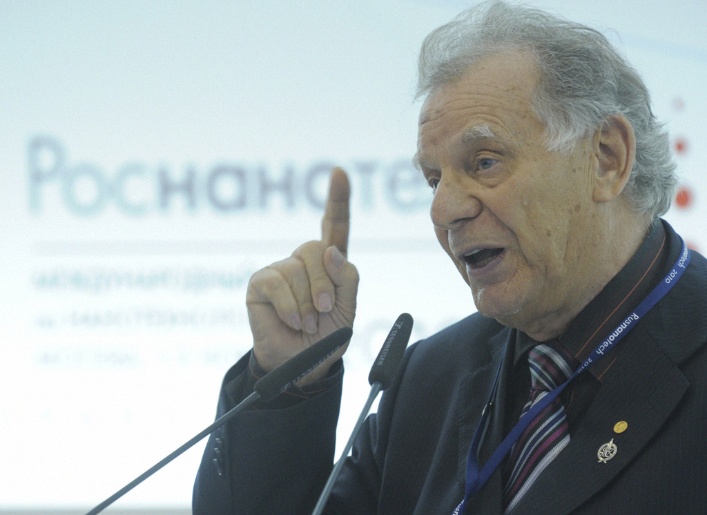 “Opening of Nanotechnology International Forum, Moscow”. Nobel Prize winner in physics (2000) Zhores Alferov attending the opening of the 3rd Nanotechnology International Forum "Rusnanotech 2010." Expocenter central exhibition complex.